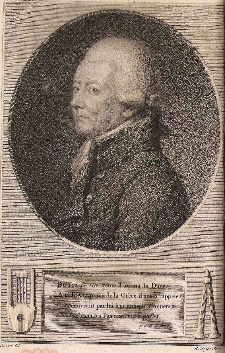 Portrait of Jean-Georges Noverre (1727-1810), Ballet master